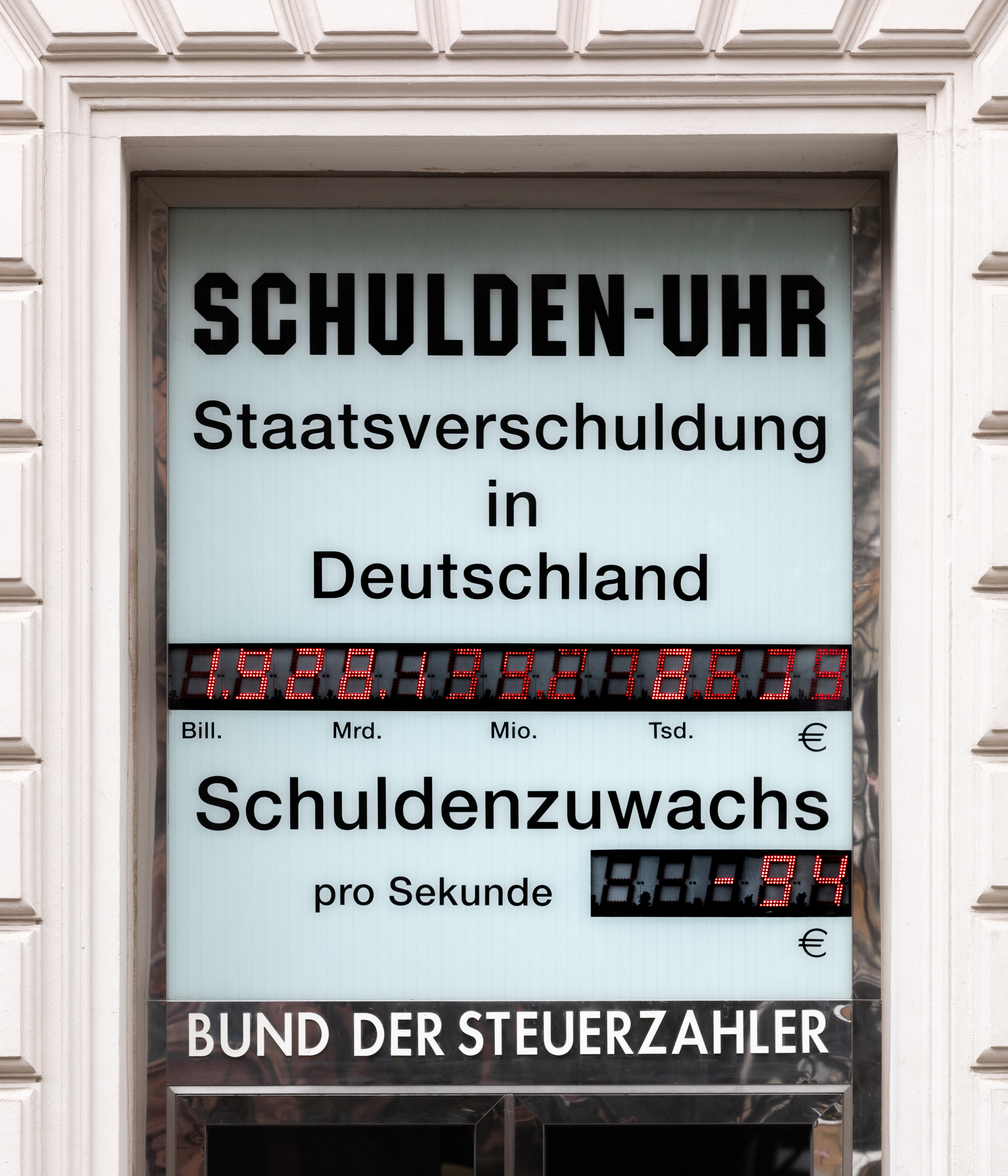 The National Debt Clock of the German Taxpayers Federation, Adolfsallee 22, Wiesbaden with negativ depth development.